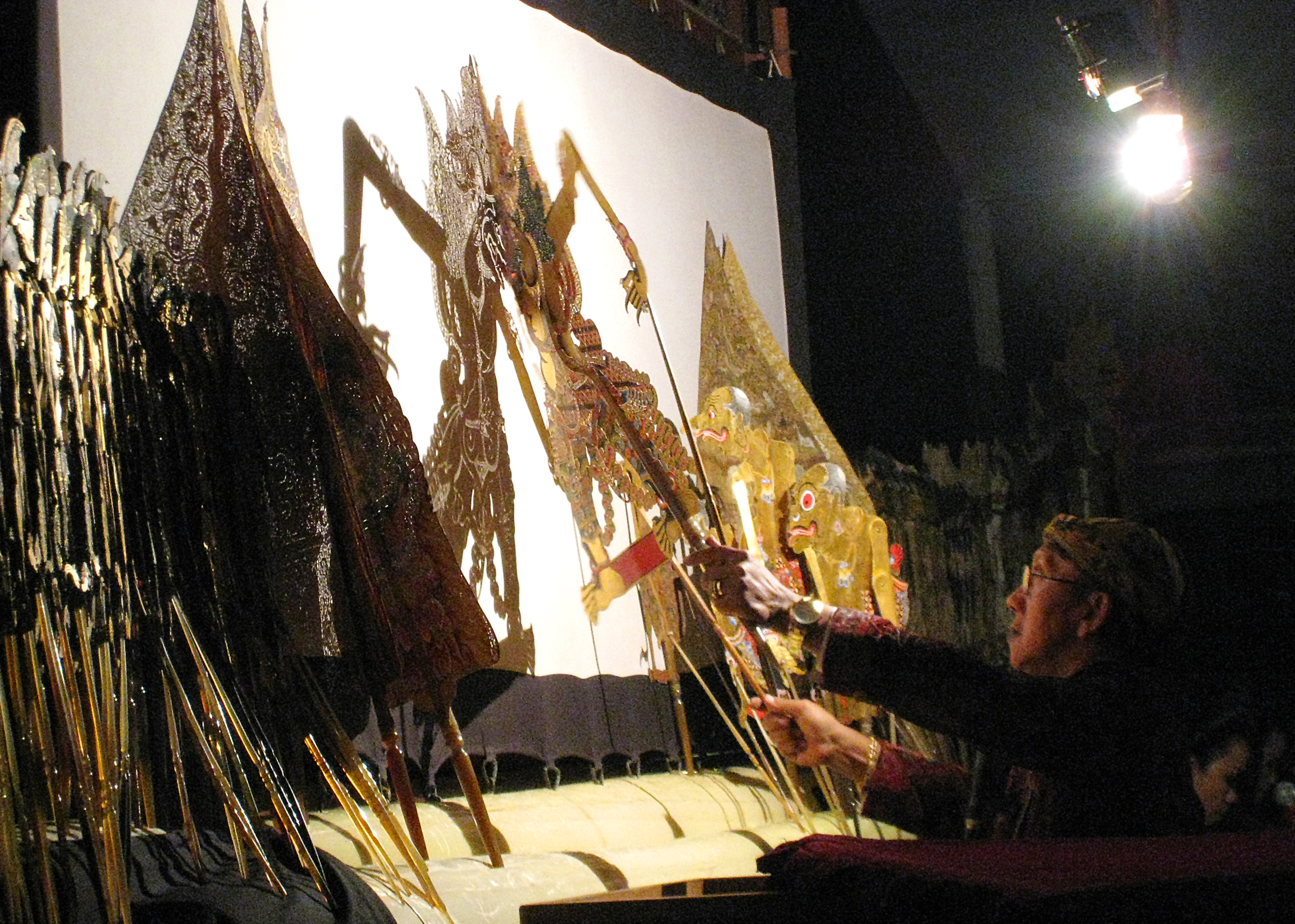 The Wayang Kulit performance by an Indonesian famous "dalang" (puppet master) Ki Manteb Sudharsono with the story "Gathutkaca Winisuda", in Bentara Budaya, Jakarta, to commemorate Kompas daily anniversary.